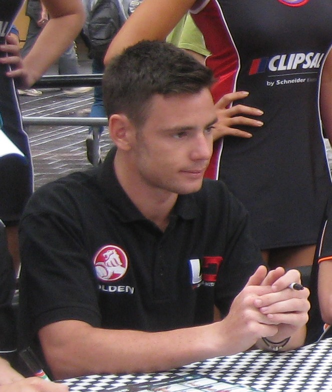 V8 Supercar driver Scott Pye, pictured in 2013